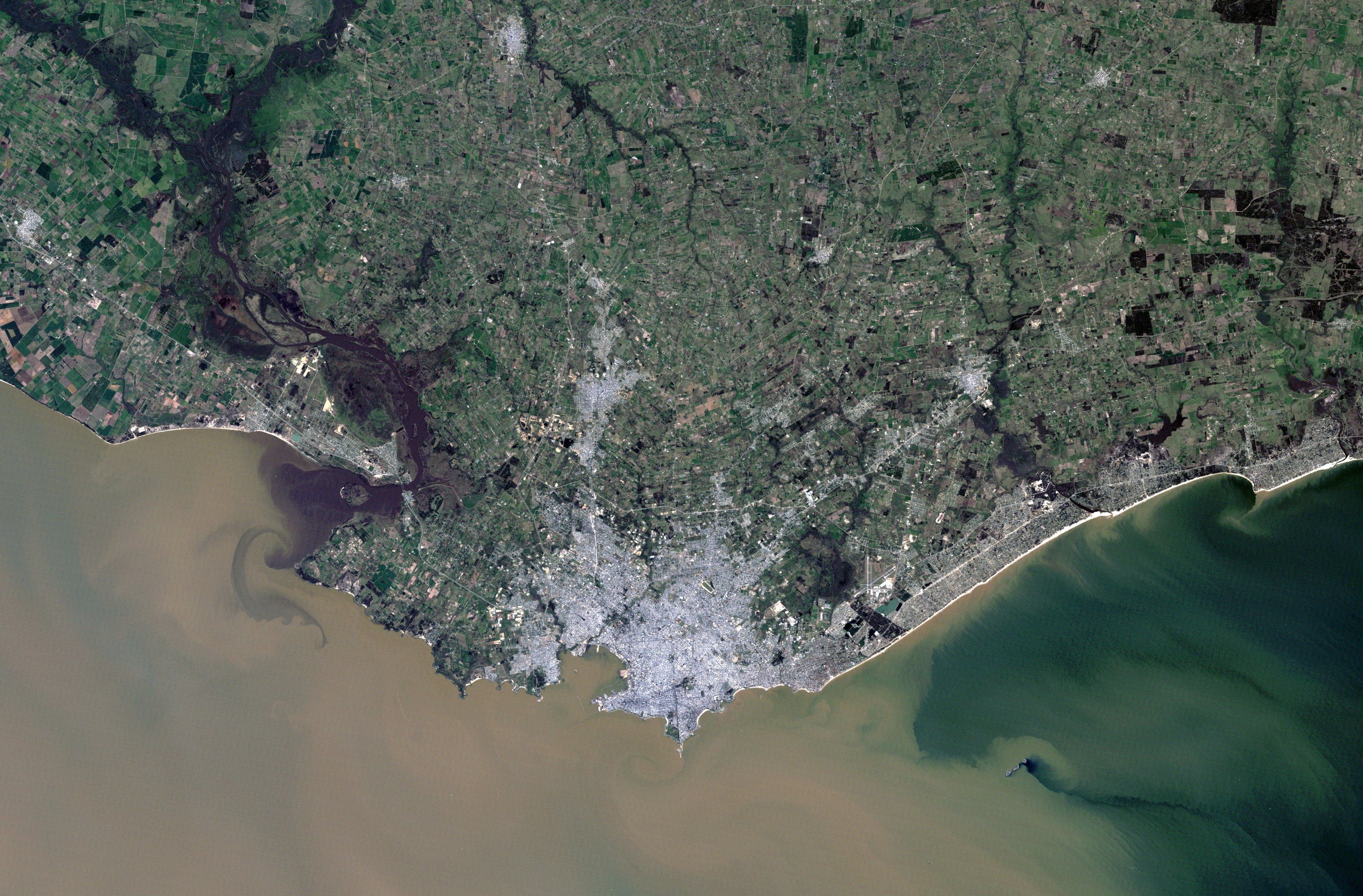 Montevideo, Uruguay, city and vicinities, LandSat-5 satellite image, near natural colors, 2011-08-21, spatial resolution 30 m